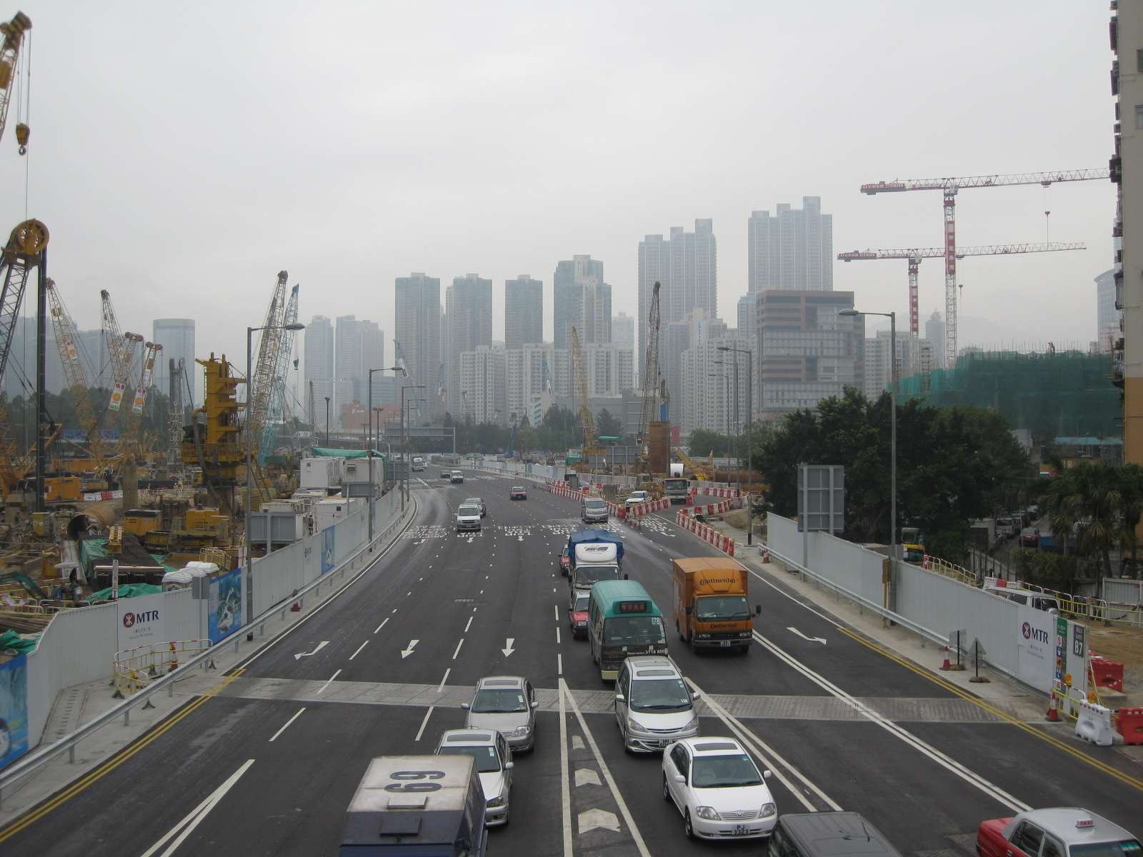 New Lin Cheung Road in March 2011